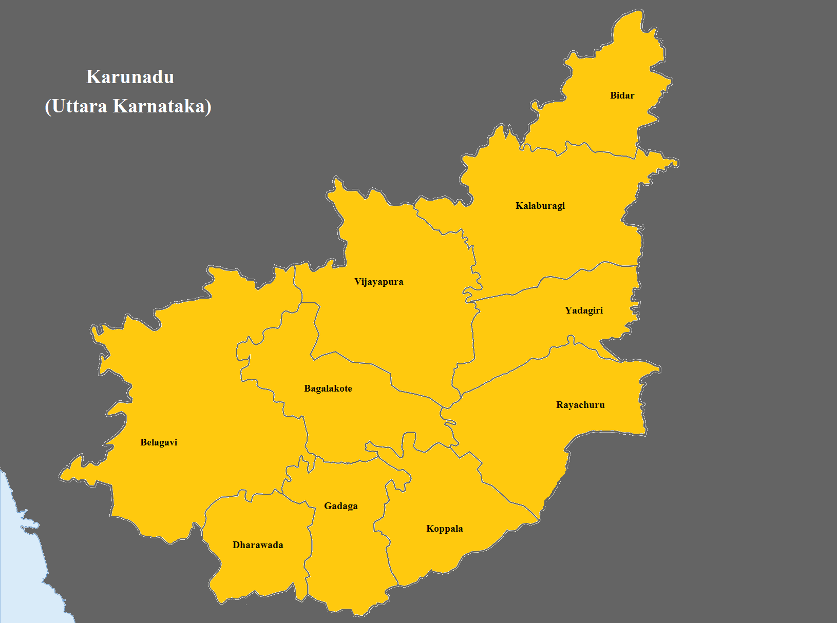 Uttara Karnataka ಕನ್ನಡ: ಉತ್ತರ ಕರ್ನಾಟಕ